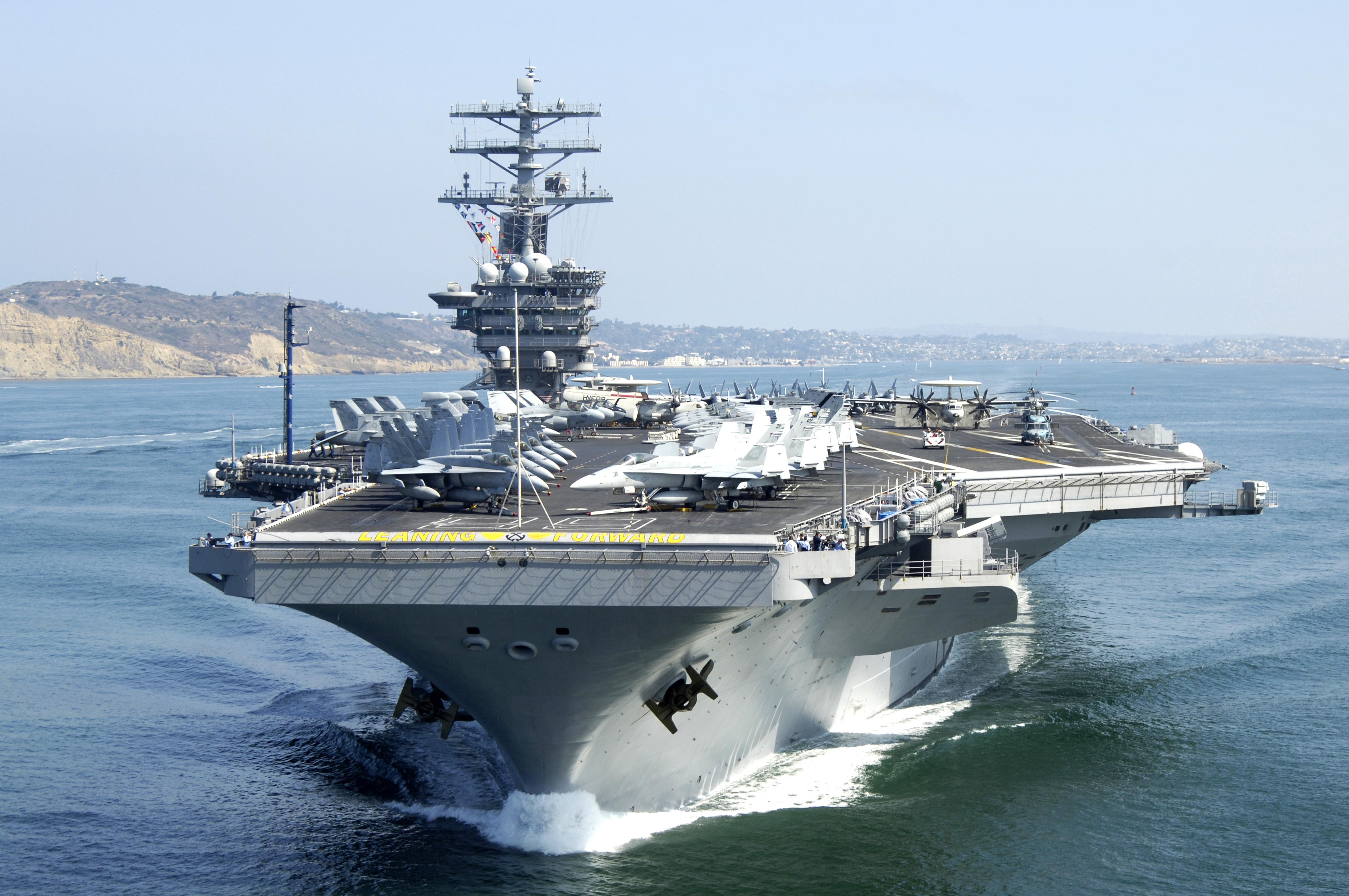 SAN DIEGO (July 31, 2009) The aircraft carrier USS Nimitz (CVN 68) and embarked Carrier Air Wing (CVW) 11 depart San Diego for a scheduled deployment to the western Pacific Ocean. (U.S. Navy photo by Mass Communication Specialist 3rd Class John Philip Wagner Jr./Released)